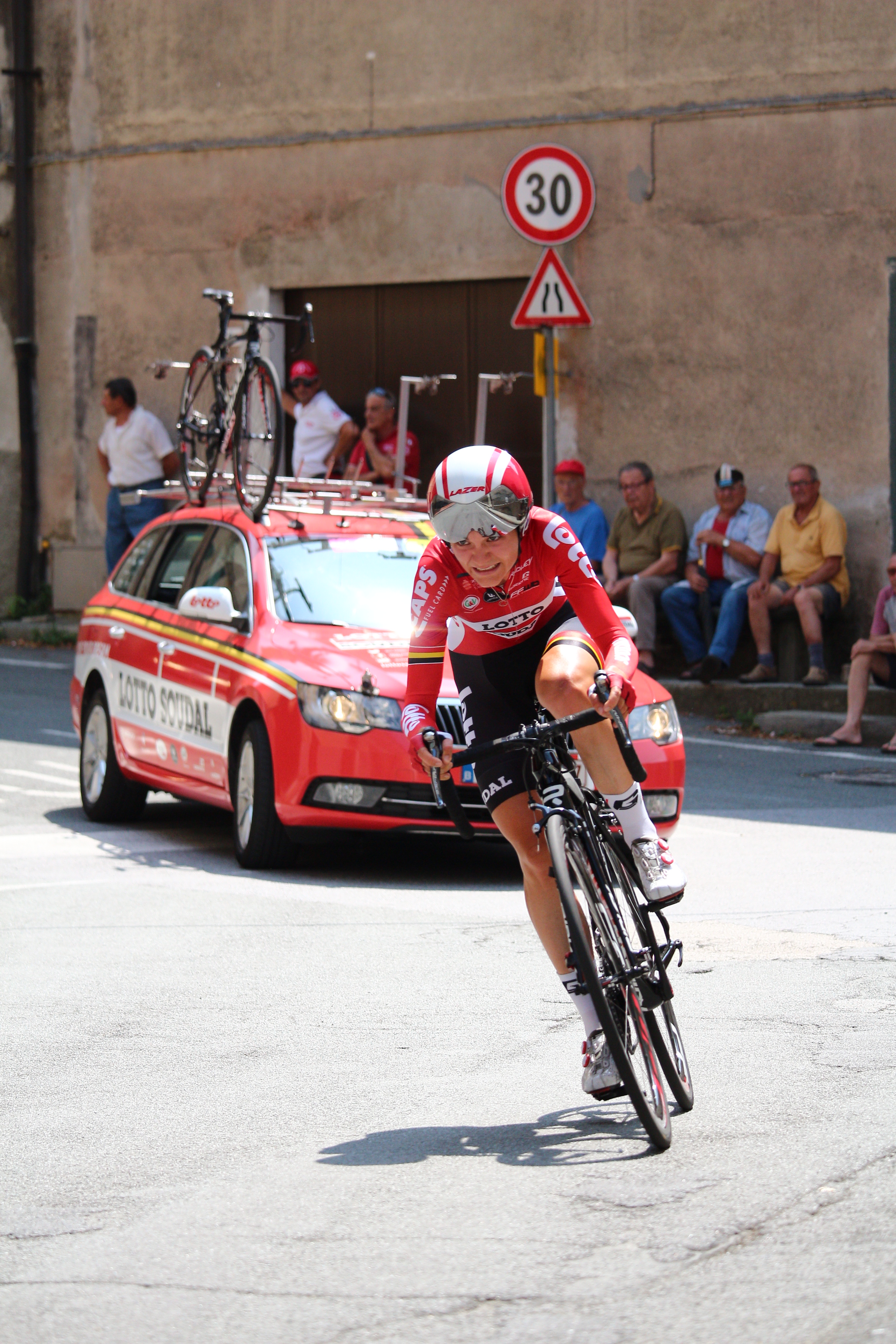 Claudia Lichtenberg during the 7th stage of Giro Rosa 2016 in Stella San Martino